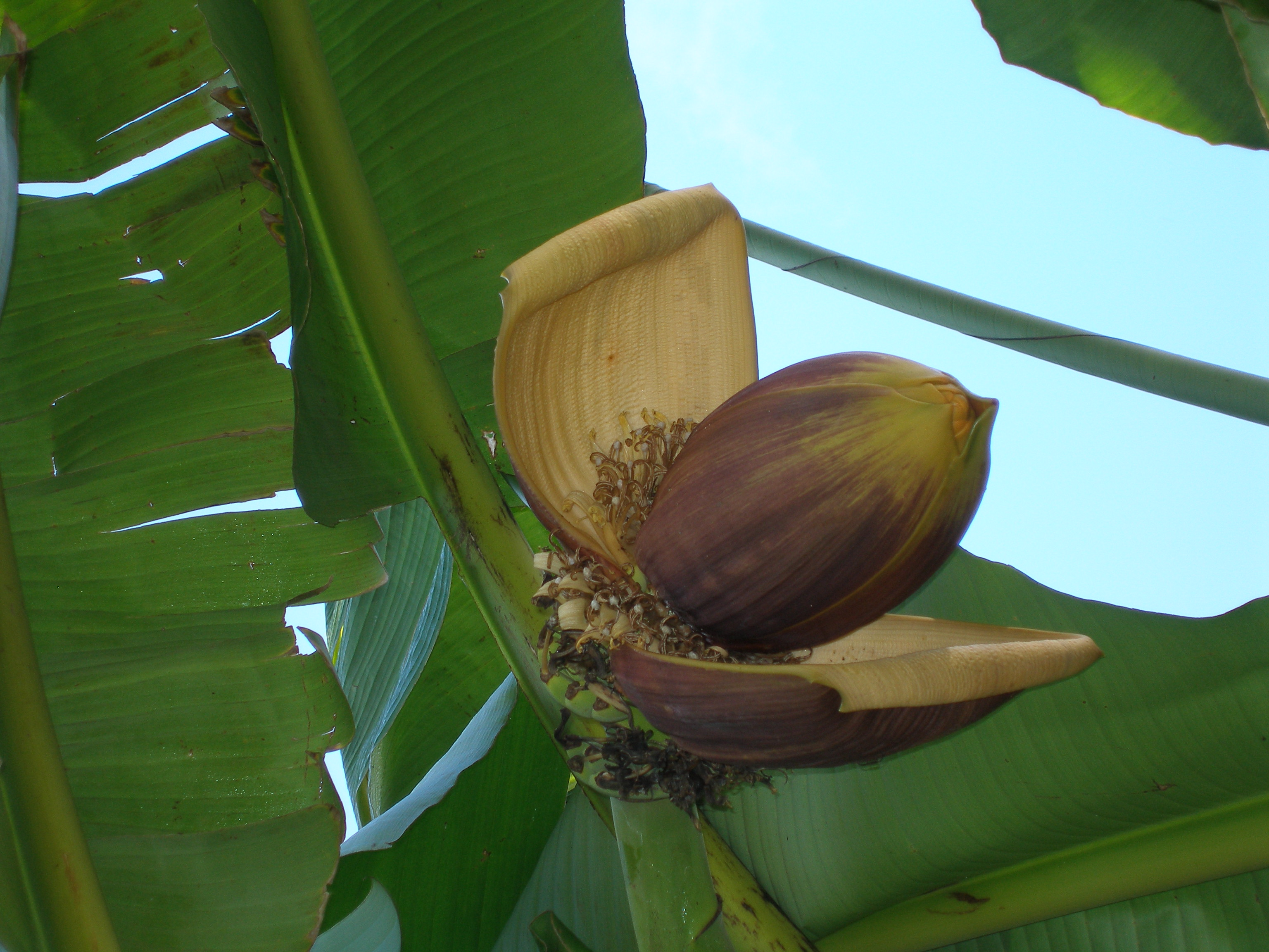 Japanese Banana Flowering for the first time at Cotswold Wildlife Park and Gardens